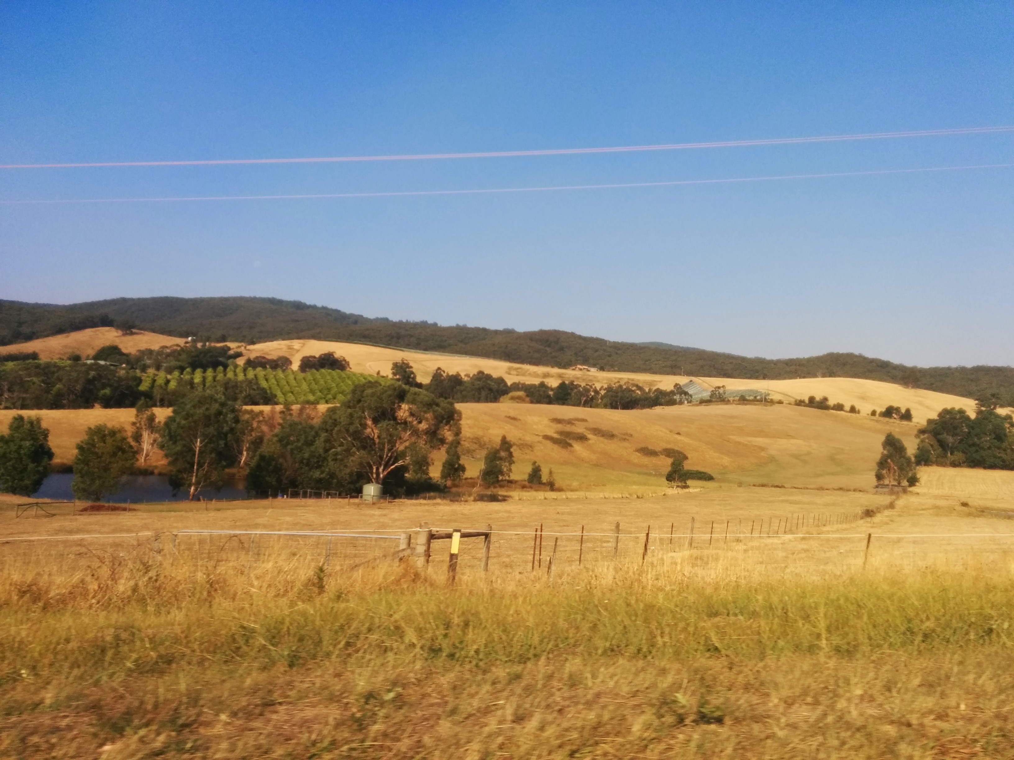 The Australian countryside in Yarra Valley in 2014.